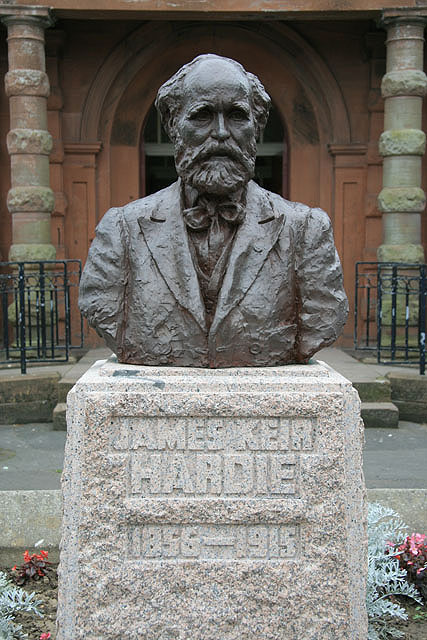 The James Keir Hardie Bust. This bust stands outside Cumnock Town Hall. A plaque at the foot of the statue reads as follows:- This bronze bust of James Keir Hardie (1856-1915) was sculpted by Benno Schotz RSA. It was commissioned by the National Keir Hardie Memorial Committee and was accepted by Provost Nan Hardie Hughes, Keir Hardies’s daughter, in August 1939. This plaque was unveiled by Mrs Anna Boyd, Vice-Convener of Cumnock and Doon Valley District Council, On 4th July 1992, the Centenary of Keir Hardie’s election to Parliament as Britain’s first Labour M.P. The bronze bust has recently been painted brown and a couple of locals told me that the towns’ people are none too pleased about it.